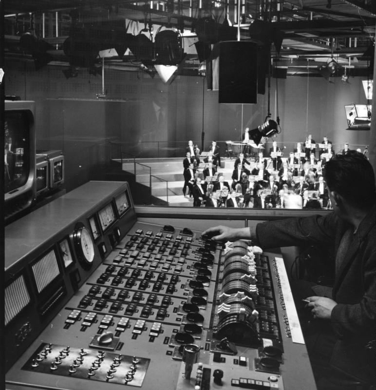 title: Baden-Baden, a television studio Suedwestfunk Description: Südwestfunk TV Studio Baden-Baden, 1964 In Ernst-Becker-TV studio the Southwest Radio Baden-Baden Symphony Orchestra , the rehearsing of the Southwest Radio for a Mozart recording. In the foreground, the central lighting, called the light organ.